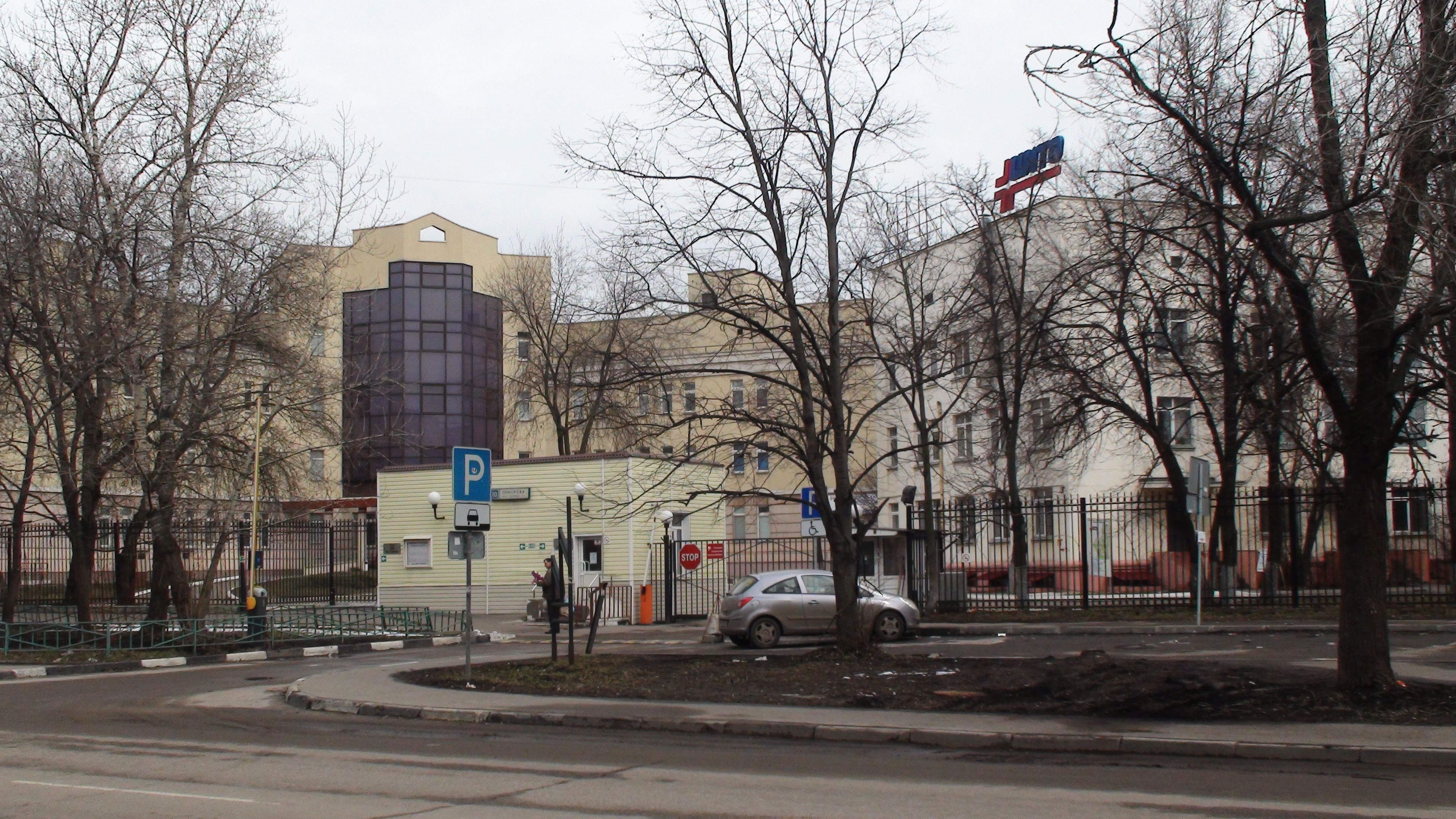 Priorova Street